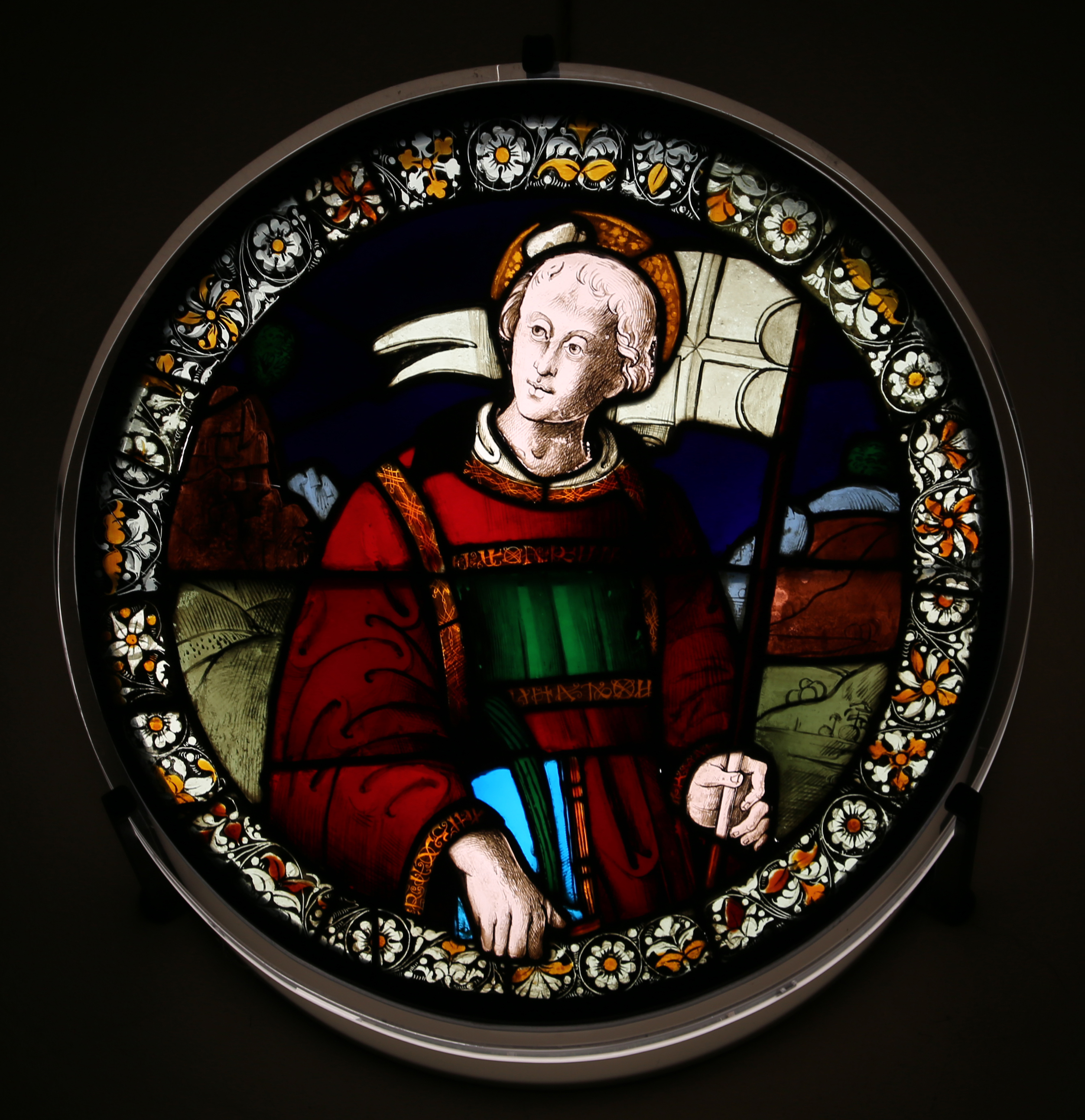 San Leolino (Rignano sull'Arno)